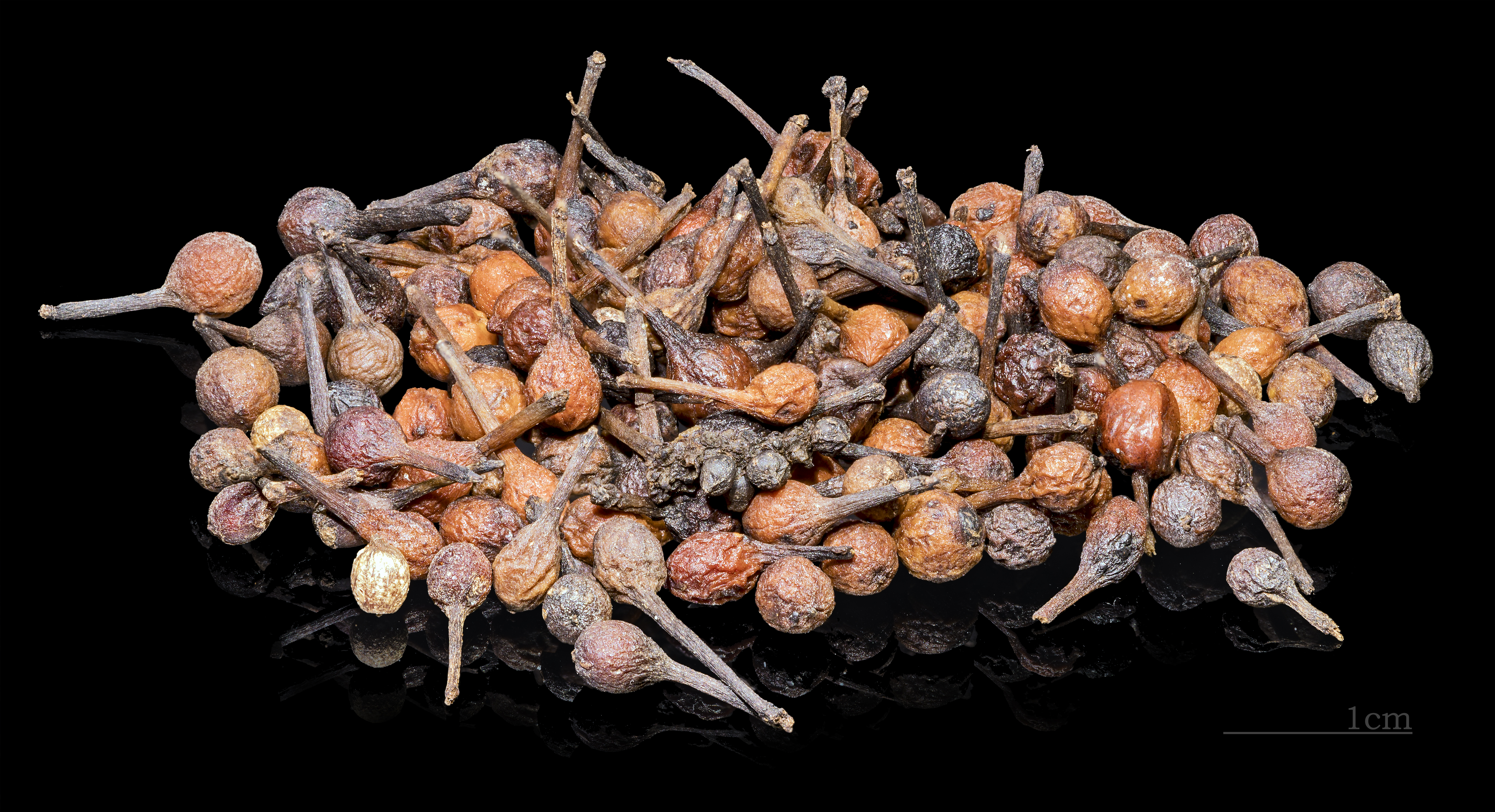 Voatsiperifery Pepper, Dried fruits